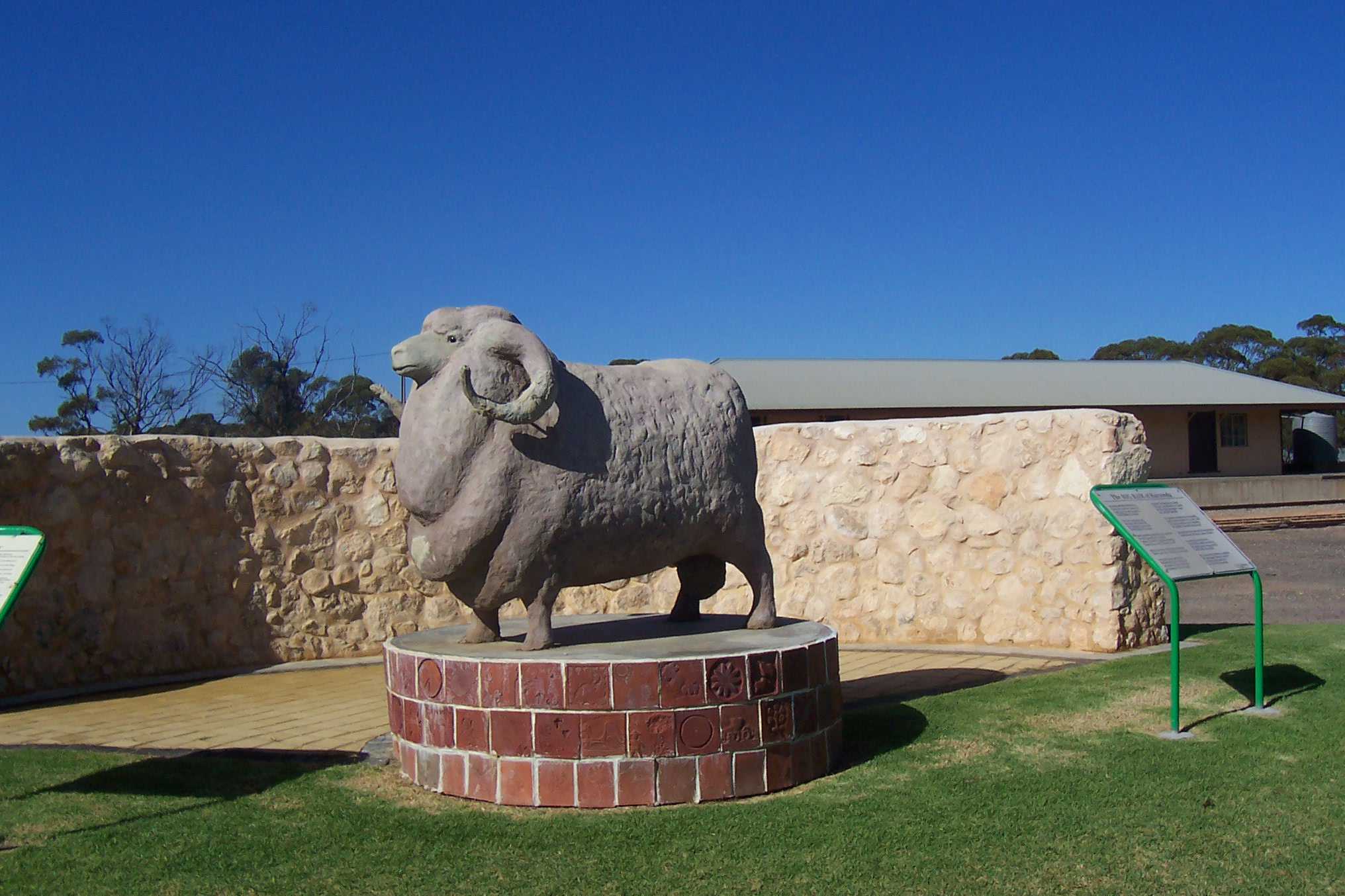 The Big Ram was a project undertaken by the Karoonda Development Group to recognise the strong influence of the wool industry in the history of Karoonda and the Mallee in general